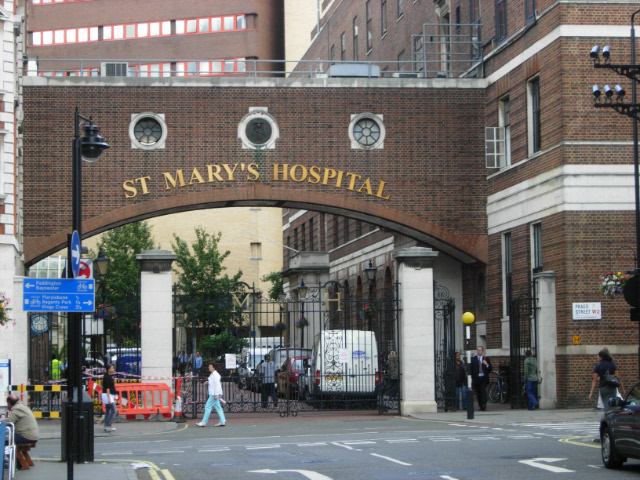 St Mary's Hospital, Paddington Seen from Norfolk Place. After the station, Paddington is probably best known for this large teaching hospital which occupies a site between Praed Street and Paddington Basin. Its main claim to fame is Sir Alexander Fleming's discovery of penicillin here in 1928; there is a small museum on site dedicated to his memory.